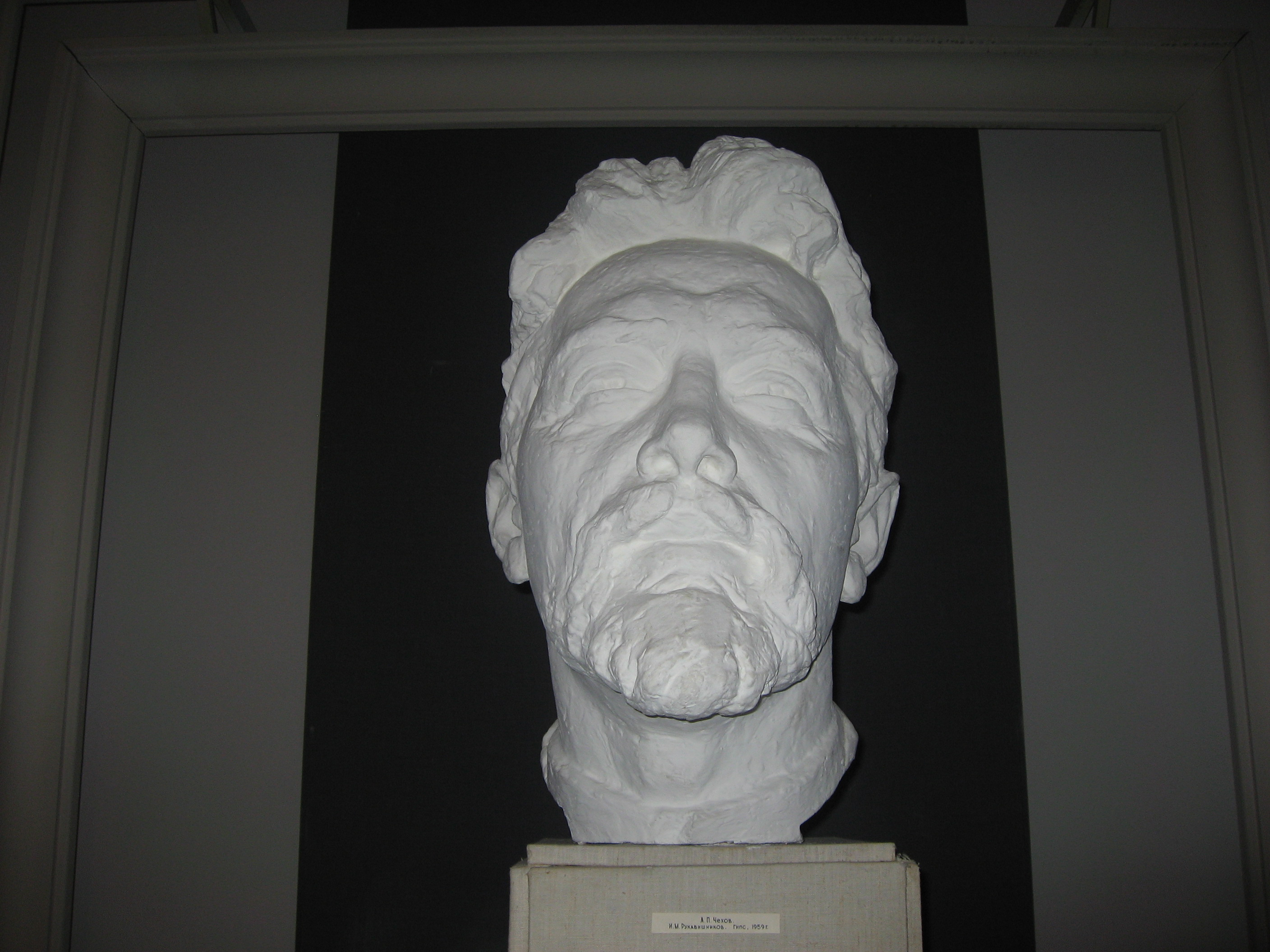 Bust of Anton Chekhov in the Museum in Taganrog, created by I.M. Rukavishnikov in 1959